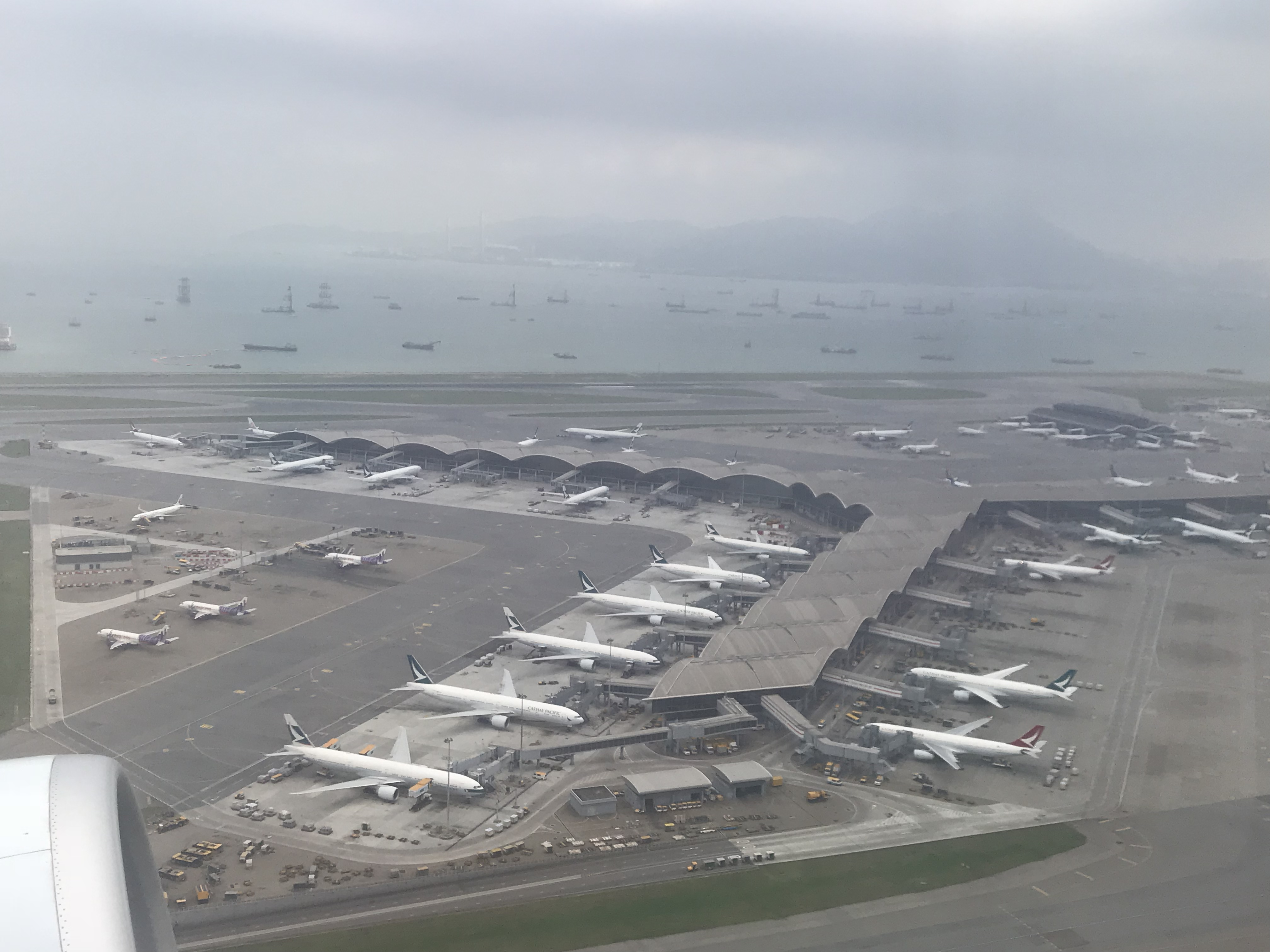 201805 Cathay’s aircrafts at HKG